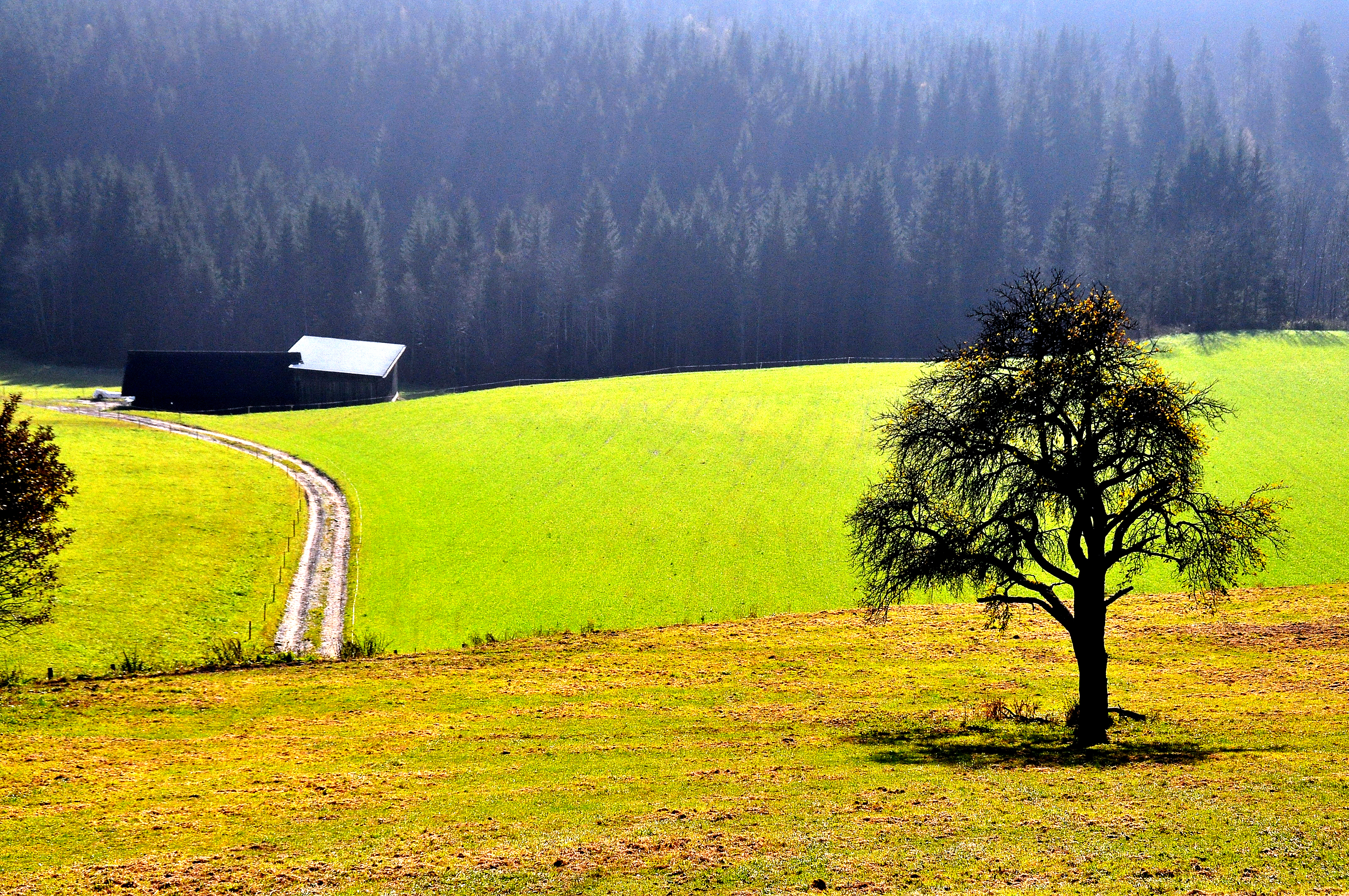 Autumnal landscape at Pernegg, municipality Feldkirchen, district Feldkirchen, Carinthia, Austria, EU